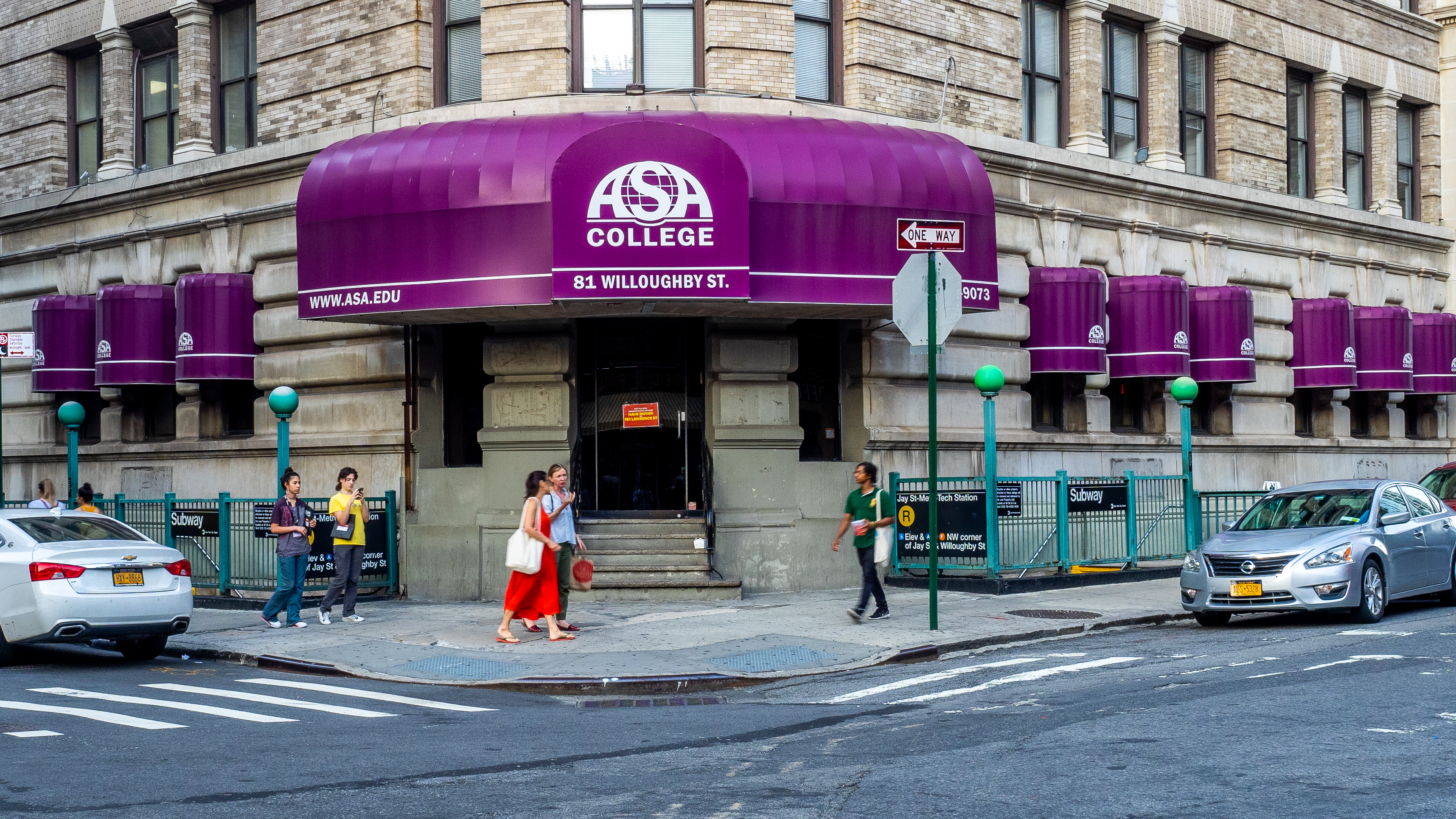 Downtown Brooklyn, Brooklyn, New York City